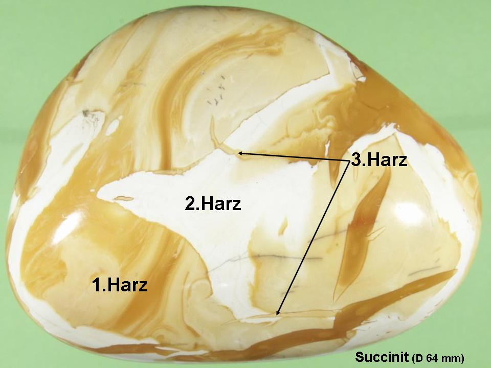 Amber from Bitterfeld, succinite